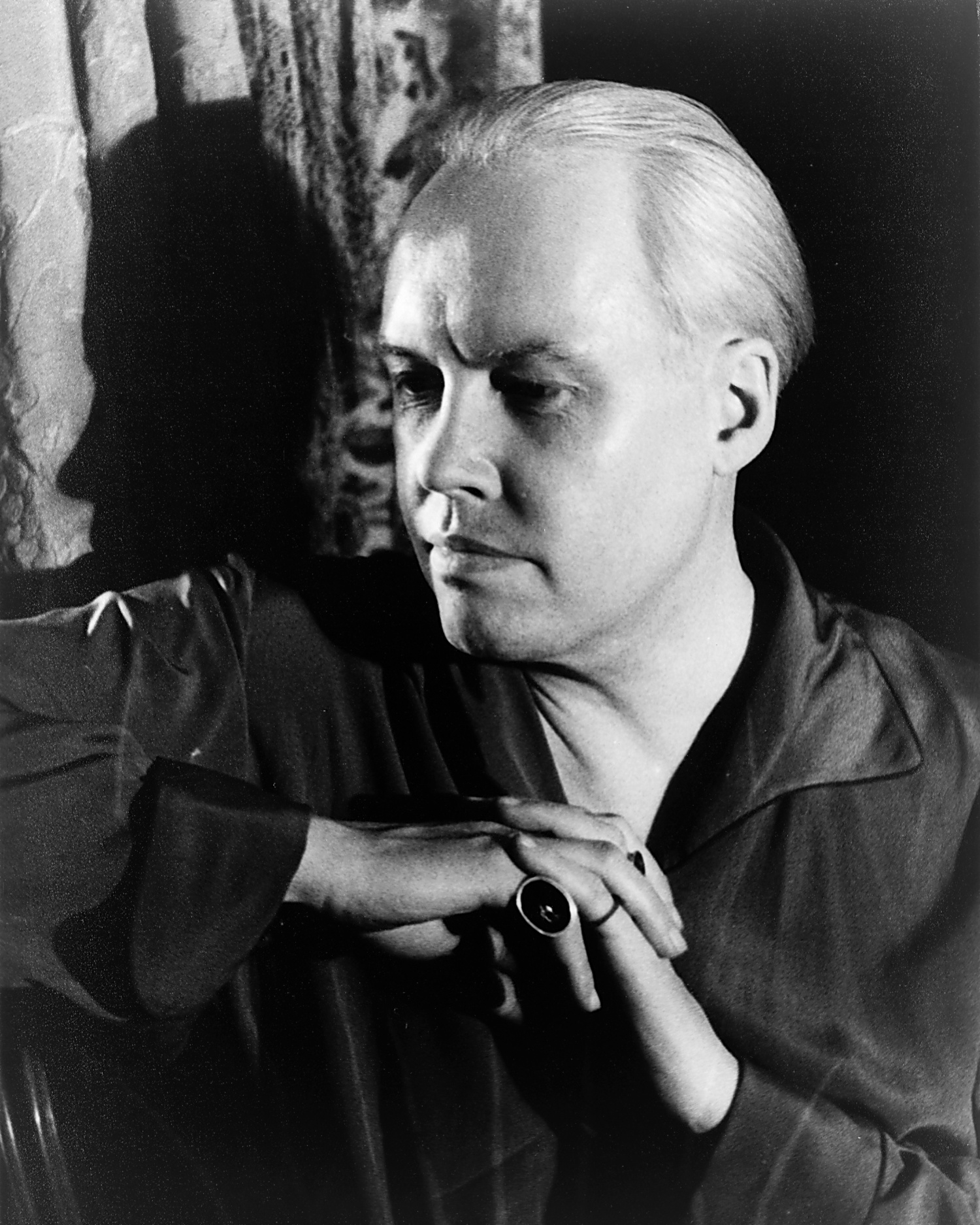 Portrait of Carl Van Vechten. Gelatin silver print.